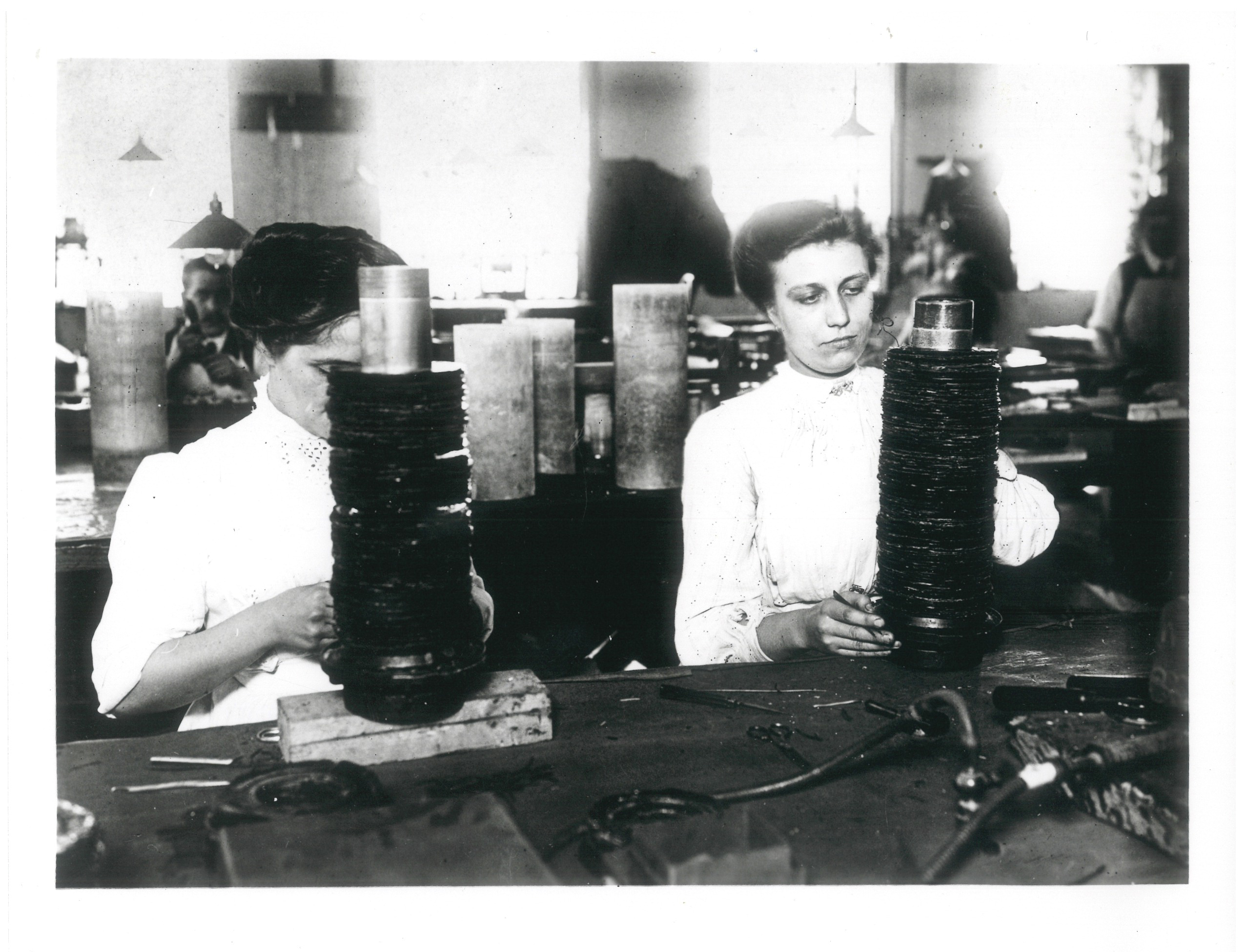 Close-up of women undertaking assembly work at the Marconi New Street factory in Chelmsford